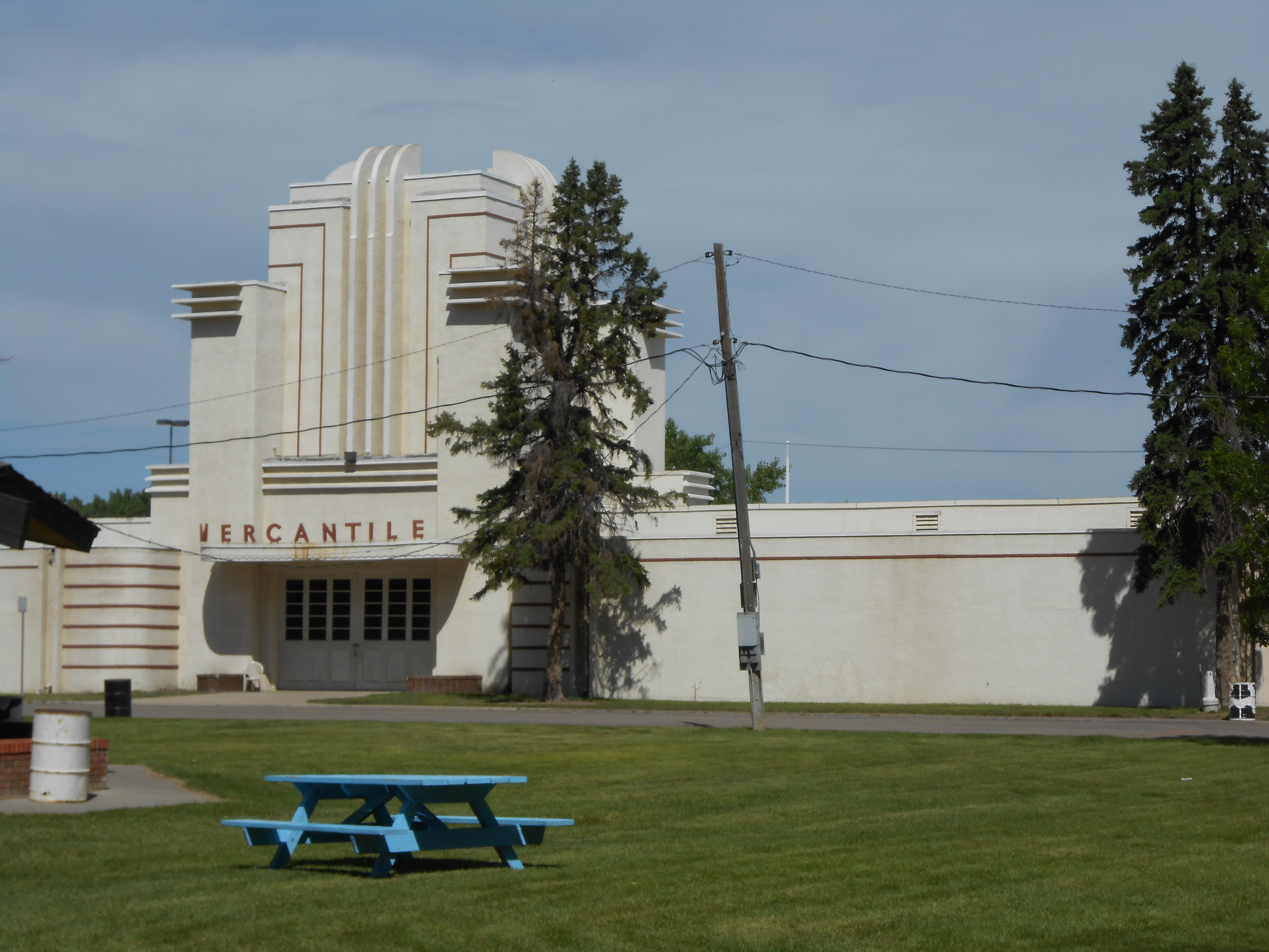 Fairgrounds at Great Falls, Montana; Montana Expo Park, home of the Montana State Fair.